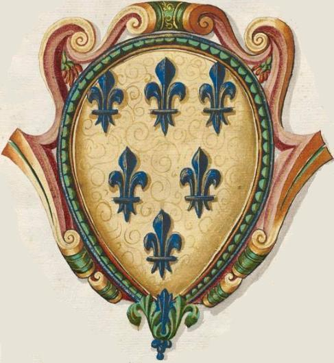 Coat of arms of Huse of Farnese